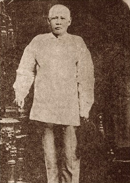 Description: Don Francisco Rizal Mercado, father of Dr. Jose Rizal. Source: Buhay at Mga Ginawa ni Dr. Jose Rizal by Poblete, Pascual Hicaro, 1857-1921 Year Published: 1909 Information page at Project Gutenberg EText-No. 18282